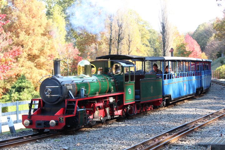 15 inch Gage Railway of Nijinosato.